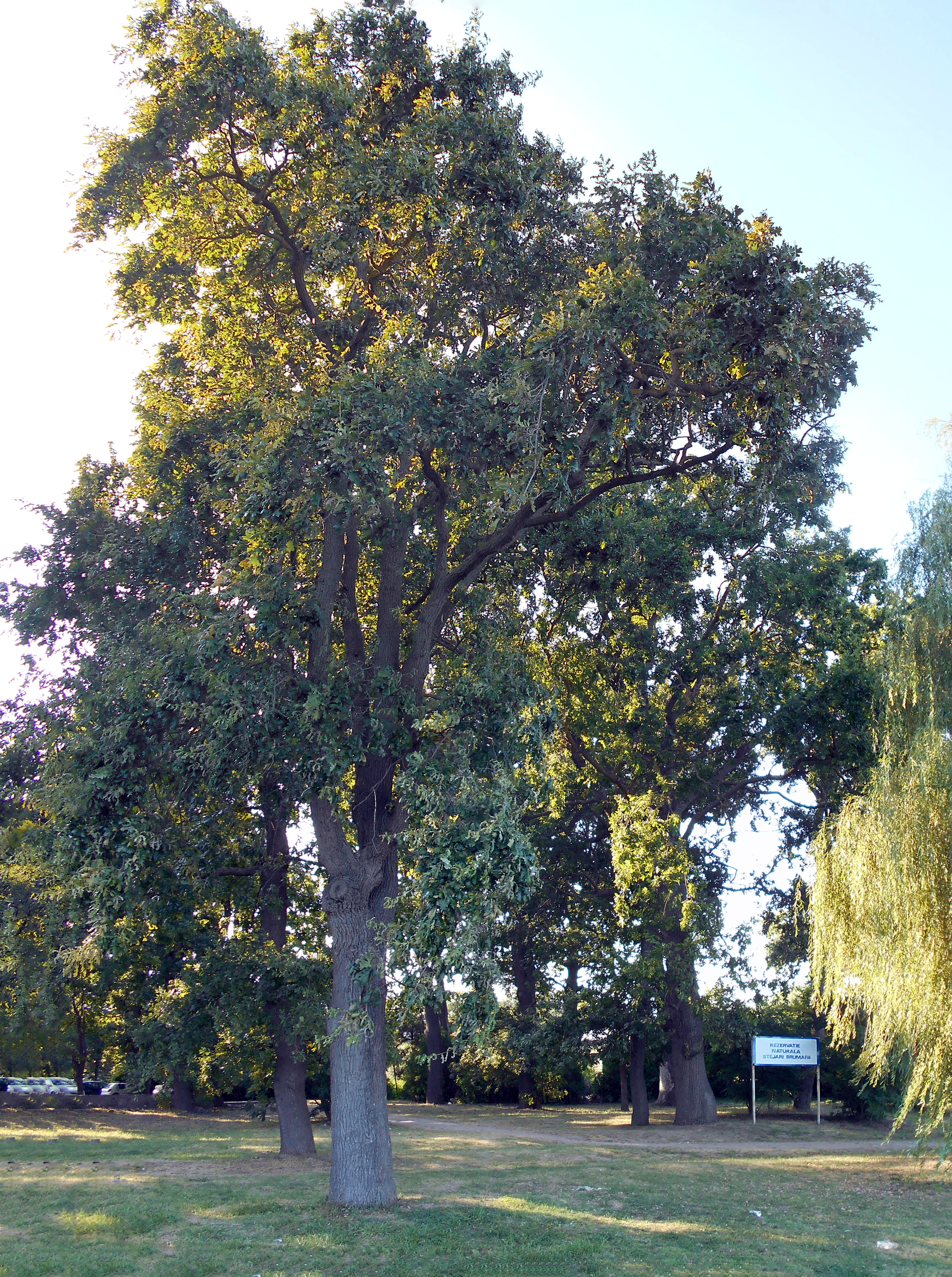 Whitish oak (Quercus pedunculiflora) natural reserve near the town Neptun in Romania